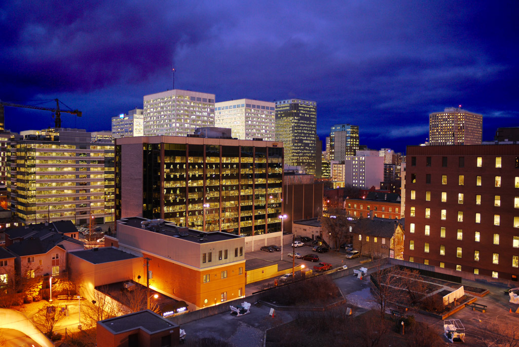 Ottawa downtown skyline